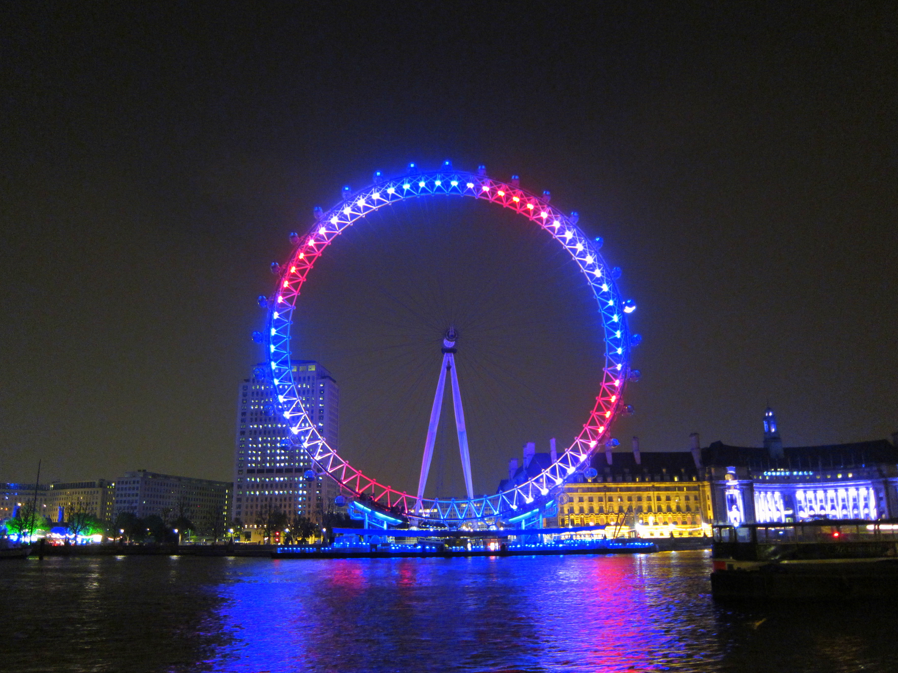 London Eye on Royal Wedding day